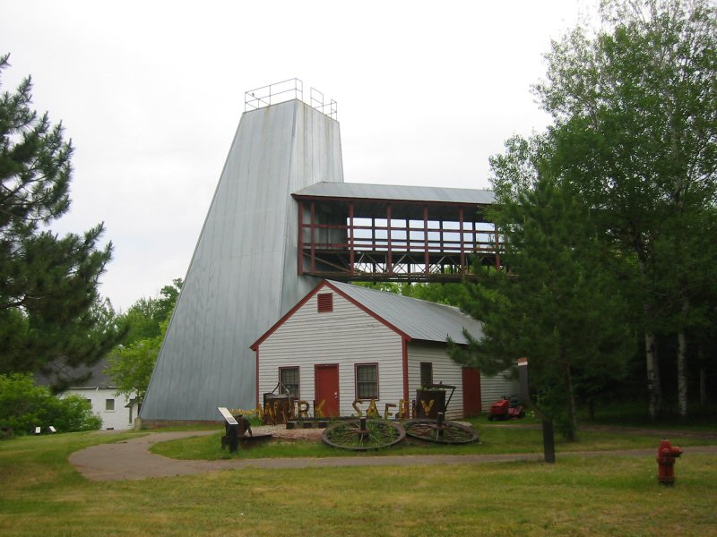 A picture of the Croft Mine Historical Park in Crosby, showing the headframe and other buildings used in mining the Cuyuna Range.